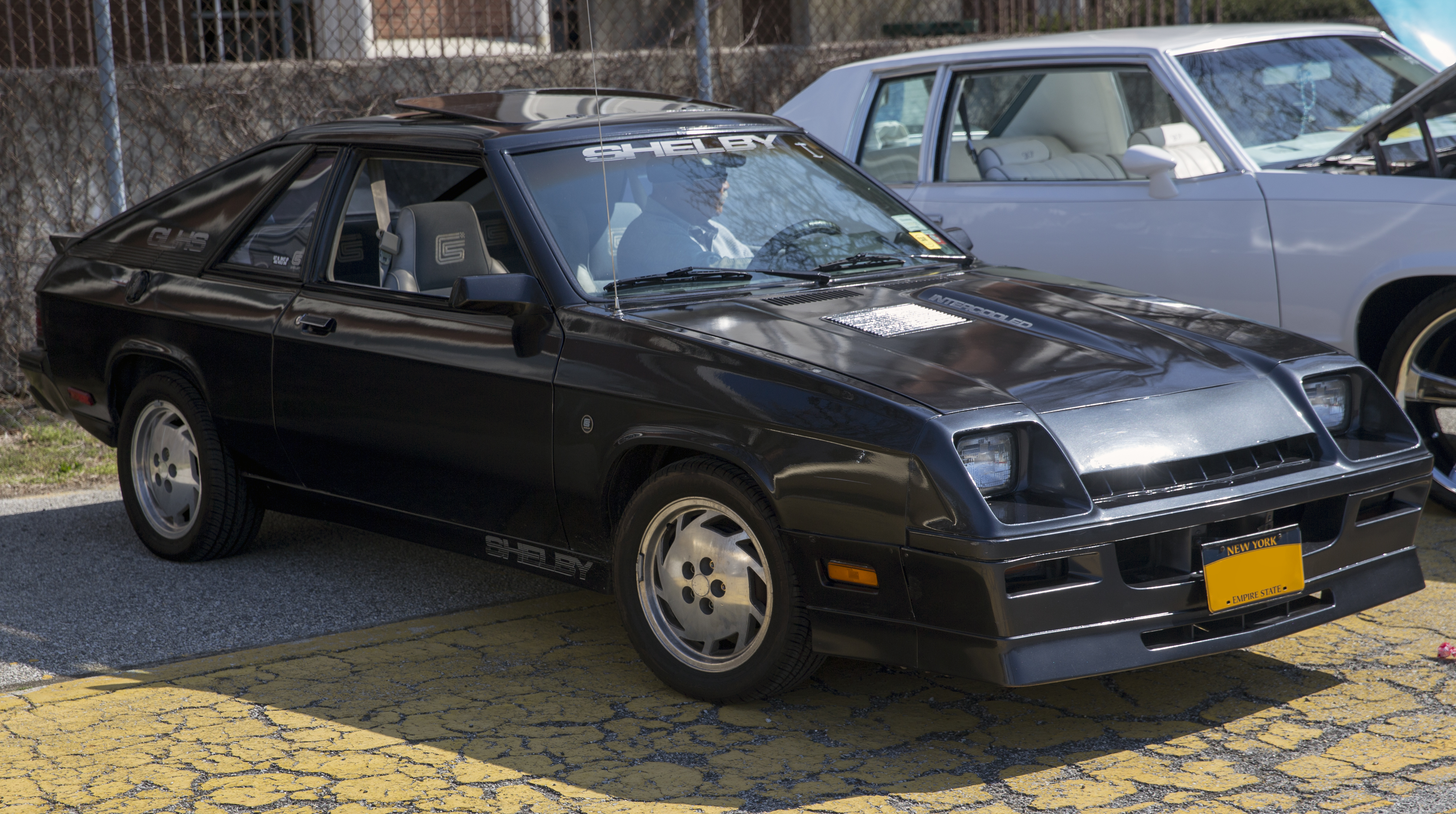 A Shelby Charger GLHS at the Belmont Race Track.